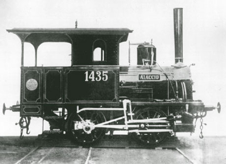 Cerimedo locomotive f.n. 750 Aiaccio, 1884